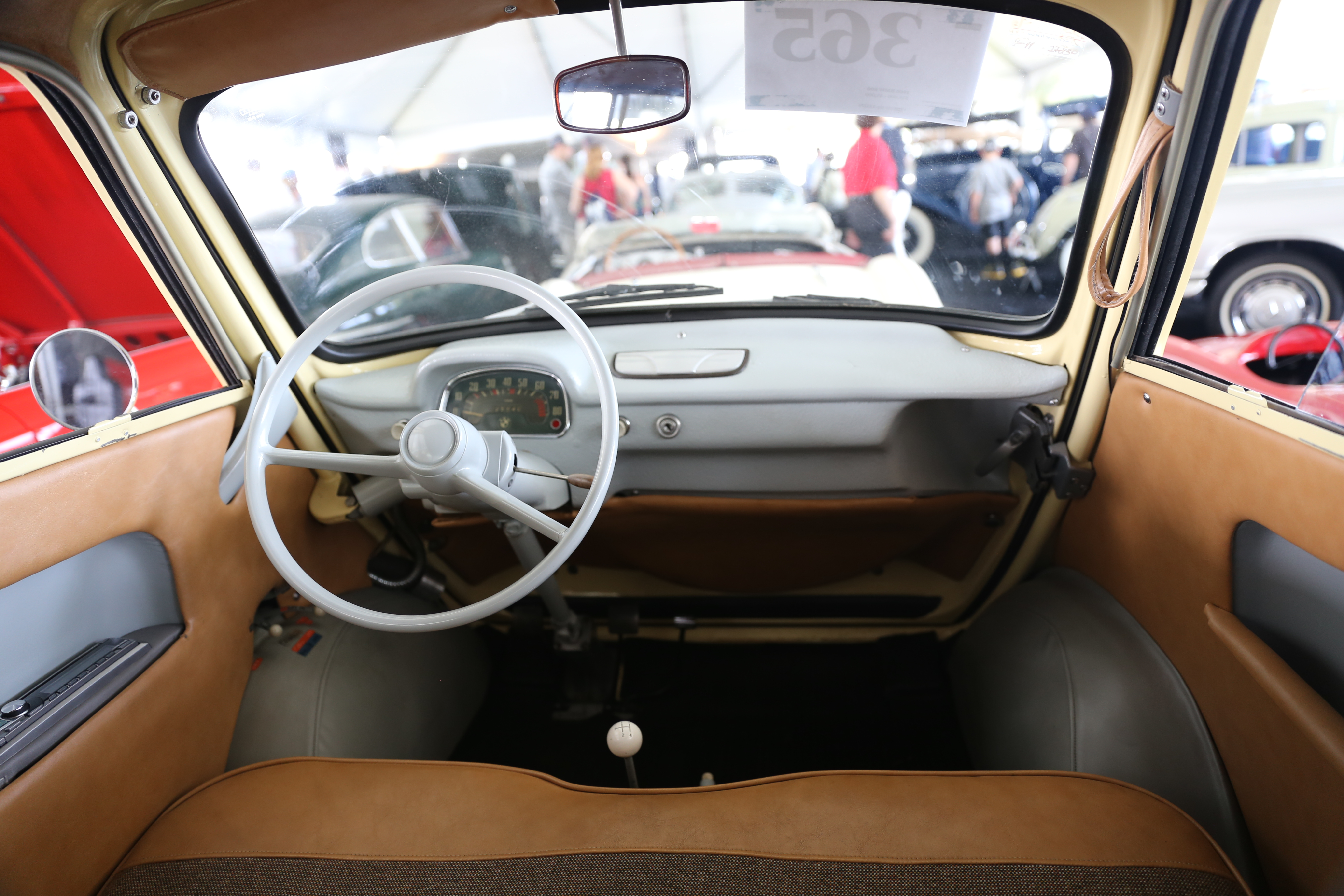 Interior, dash, and steering wheel of a 1960 BMW 600 at the Bonhams auction attached to the 2013 Greenwich Concours d'Elegance. Chassis number 133279 was most likely built in late 1959 as production had officially ended by then. The stereo on the left is not standard.